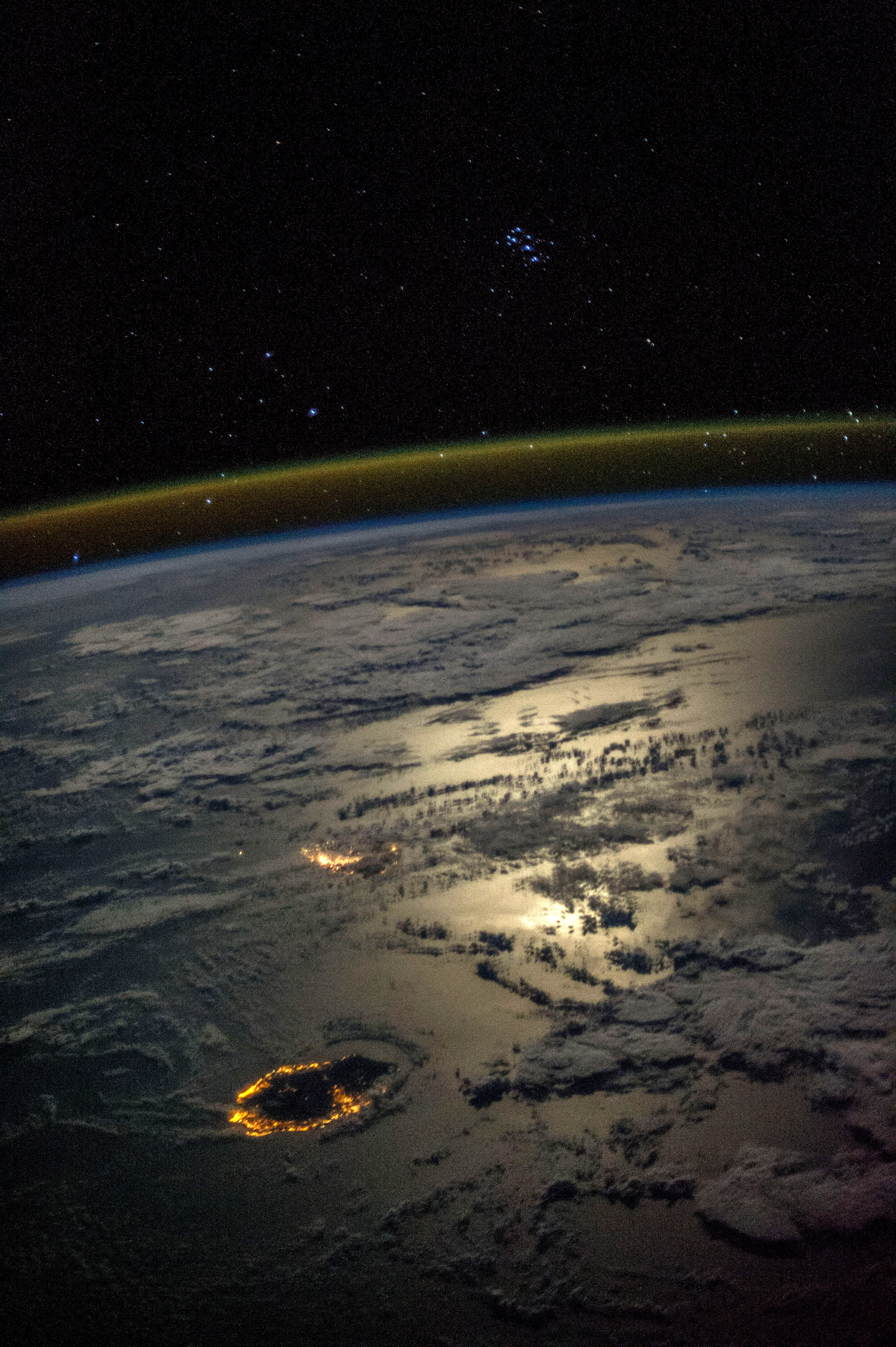 Satellite image of Mauritius (partially covered with clouds) and Réunion islands at night. The image was captured aboard the International Space Station on the night of Sunday 25 to Monday, August 26, 2013, shortly before midnight by astronaut Karen Nyberg.